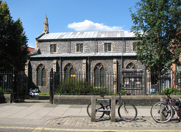 Former parish church of St Swithin, St Benedict's Street, Norwich, seen from south-southwest